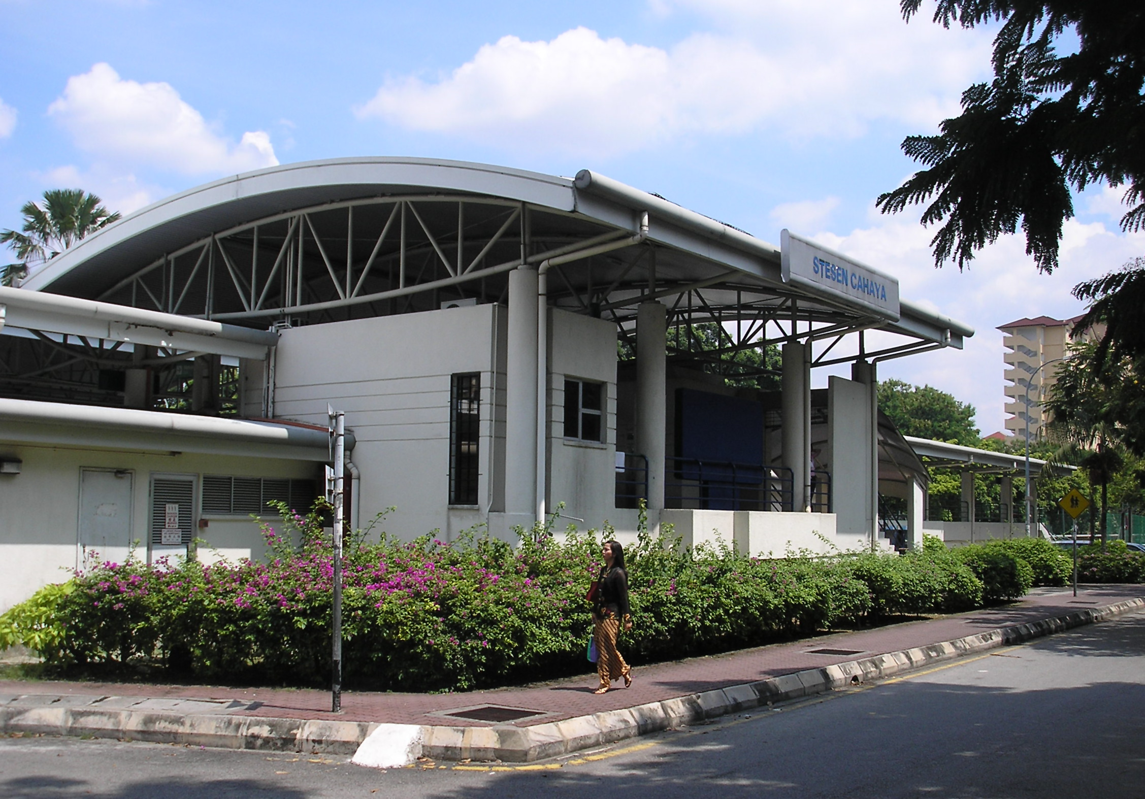 An exterior view of the Cahaya LRT station (Ampang Line), Selangor, Malaysia. Originally uploaded June 4, 2007.